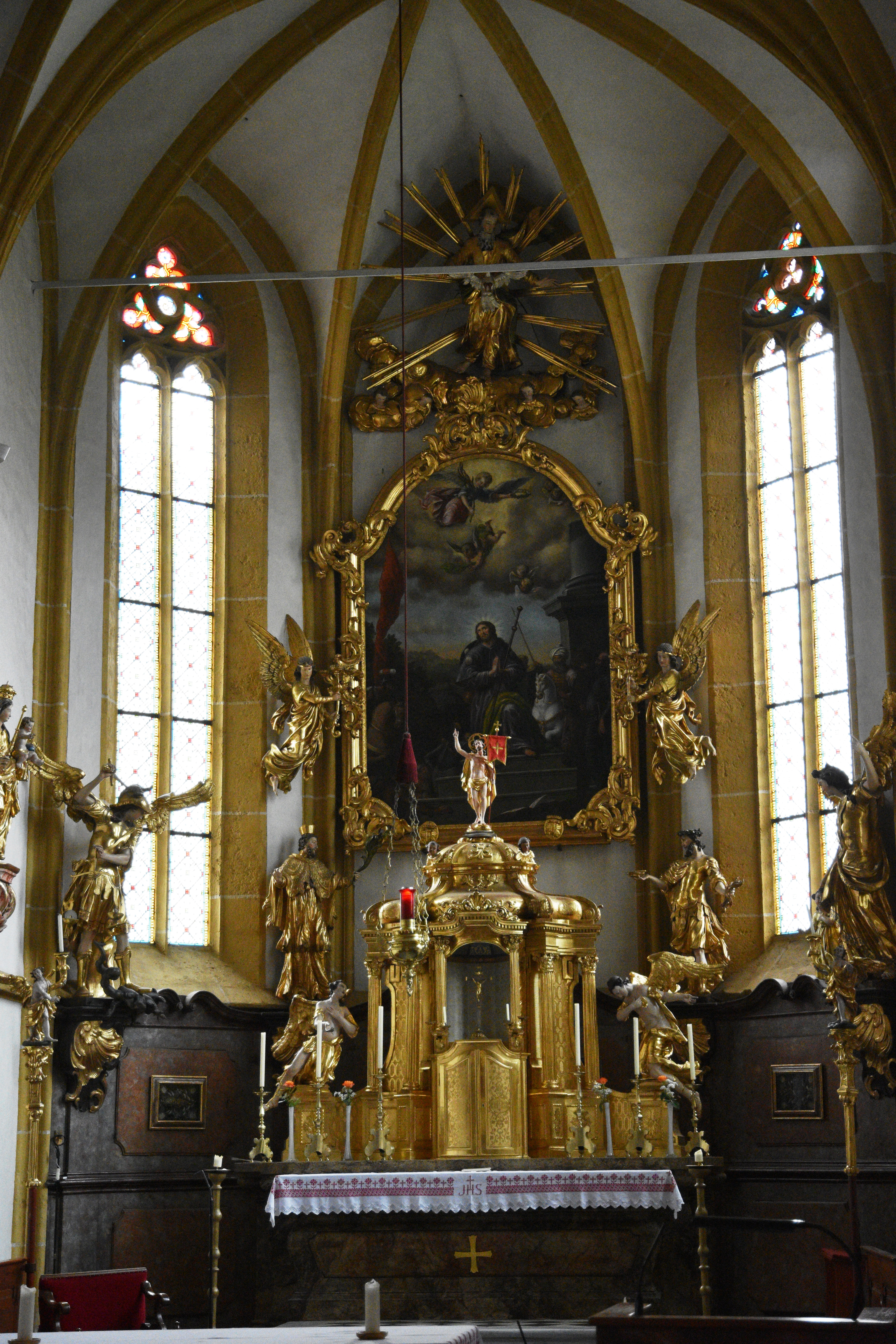 Saint James the Greater Church Krieglach Interior